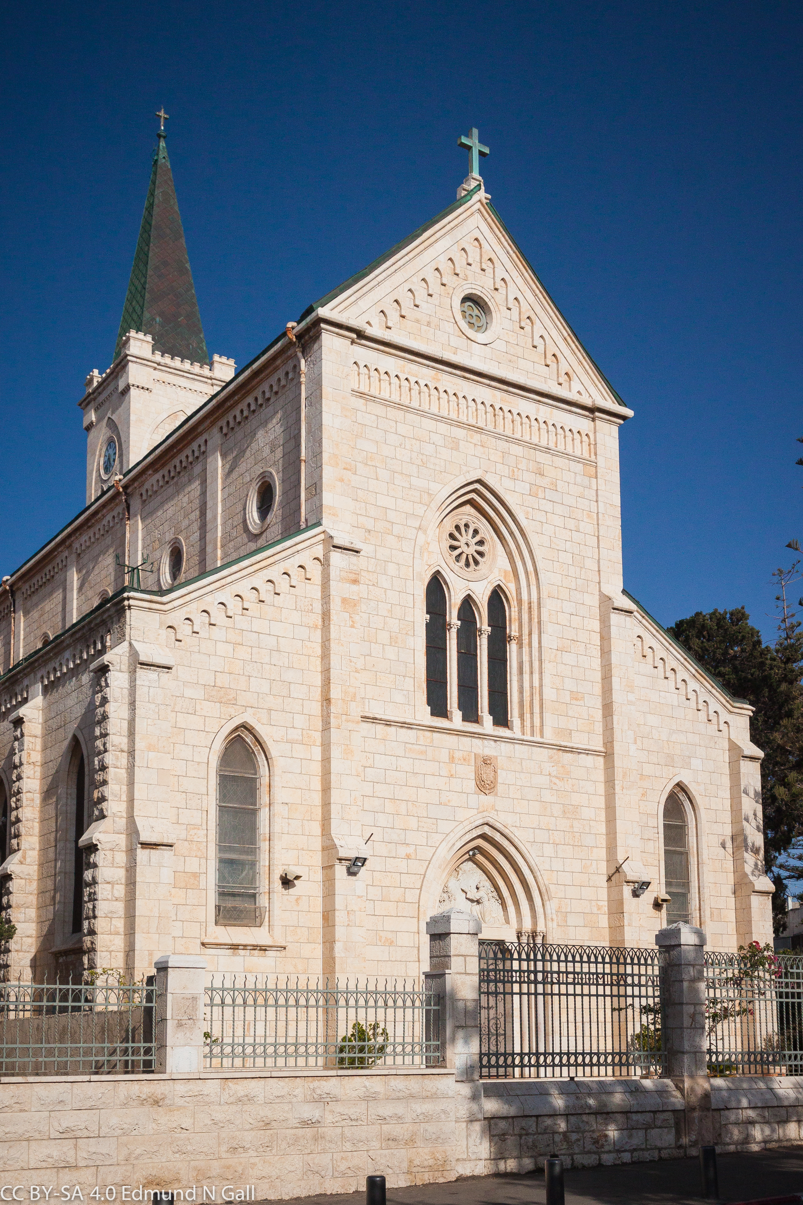 St Anthony's Church in Old Jaffa, Tel Aviv.